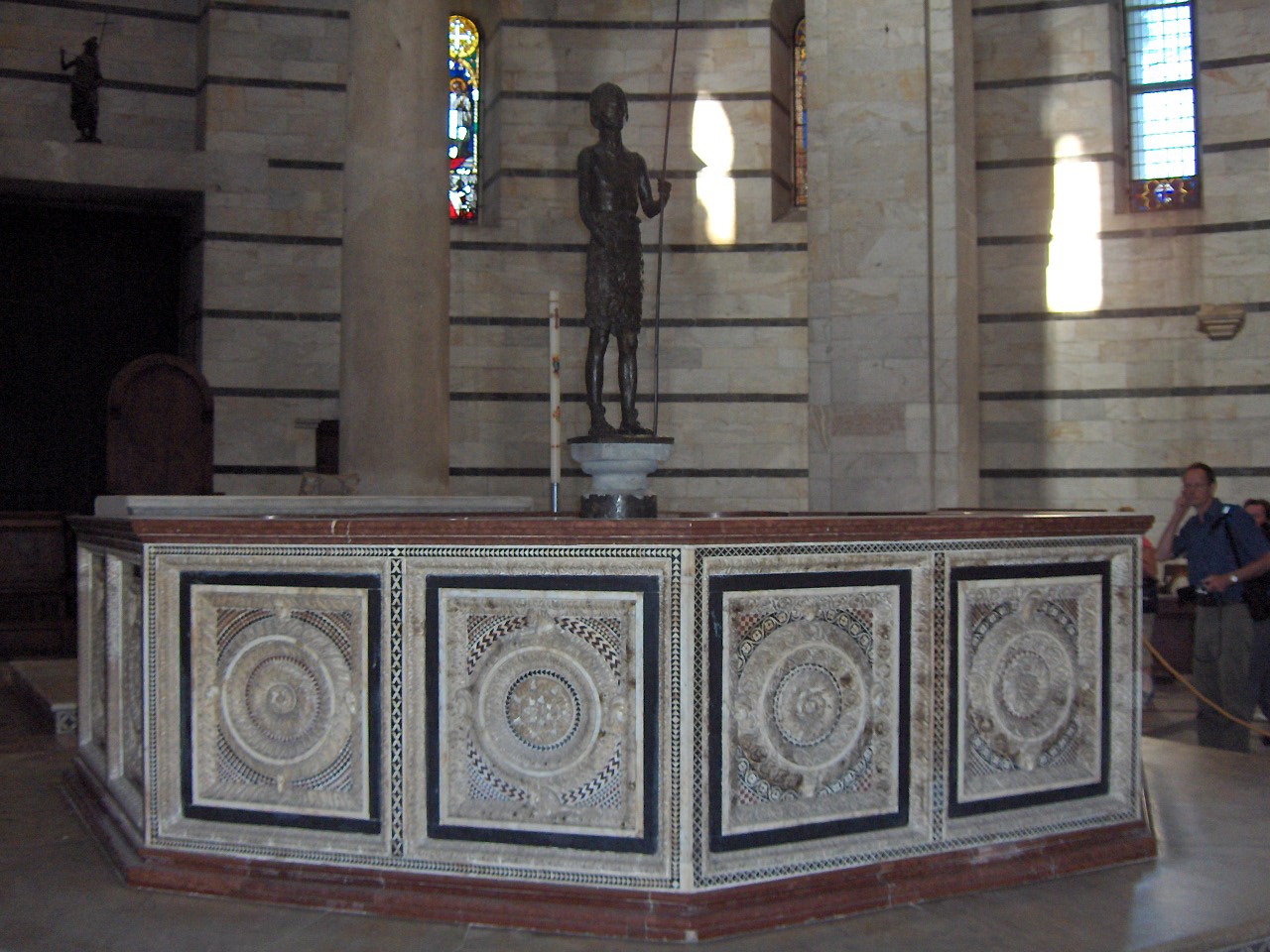 Pisa, Italy - Baptistry; font by Guido Bigarelli da Como Own work - photo made on 10 October 2005